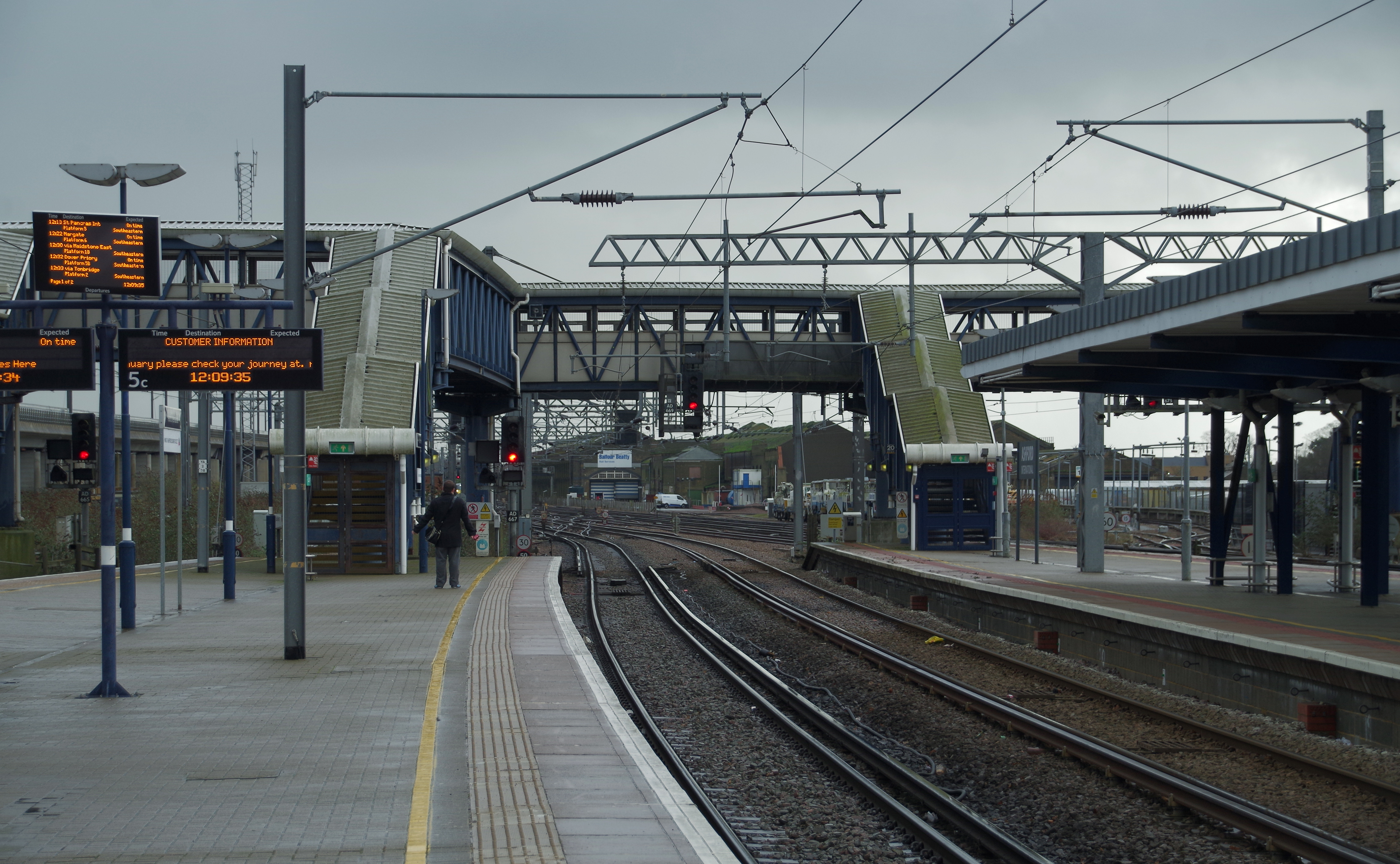 Looking east along platform 5 at Ashford International.